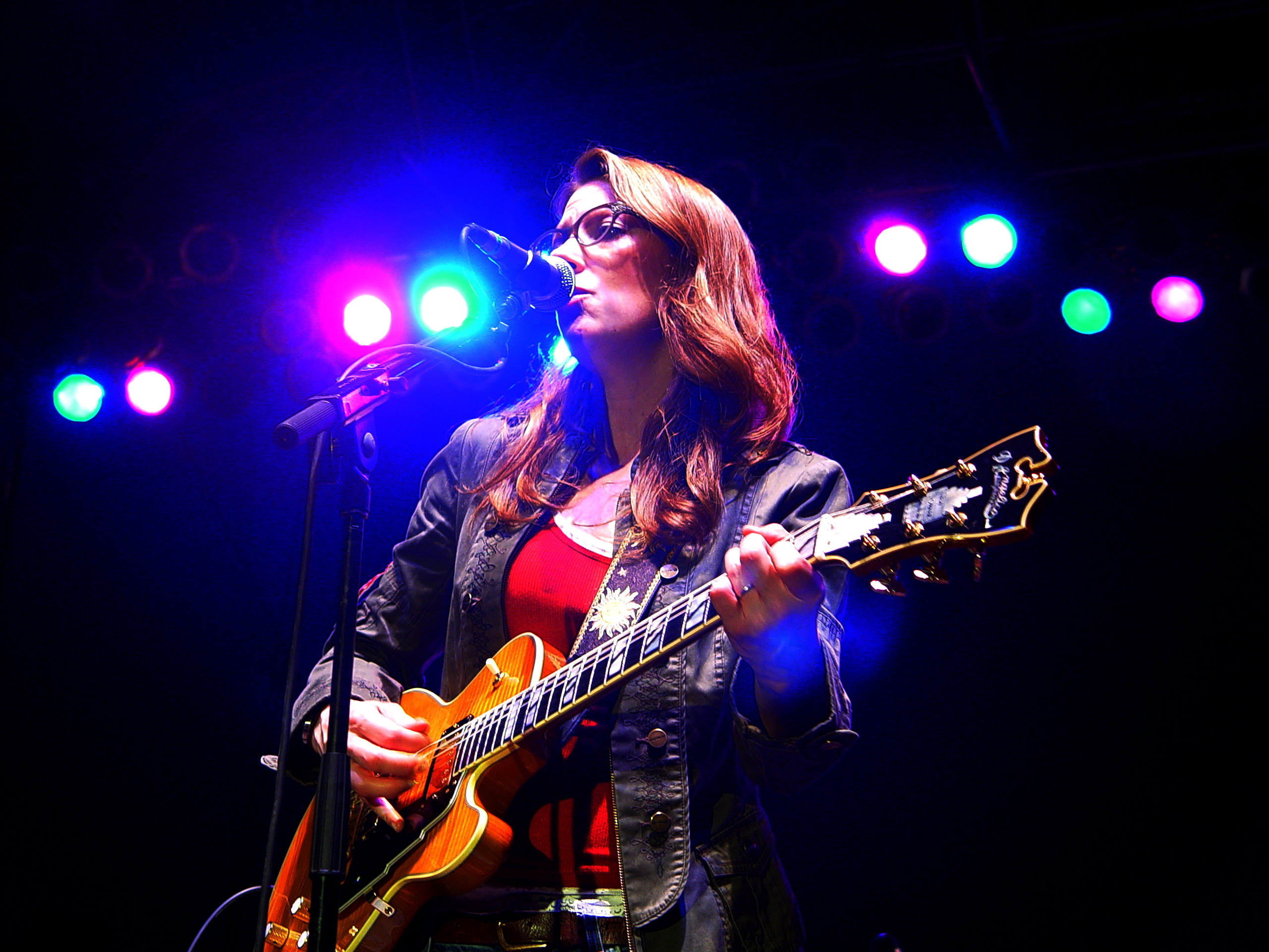 Susan Tedeschi